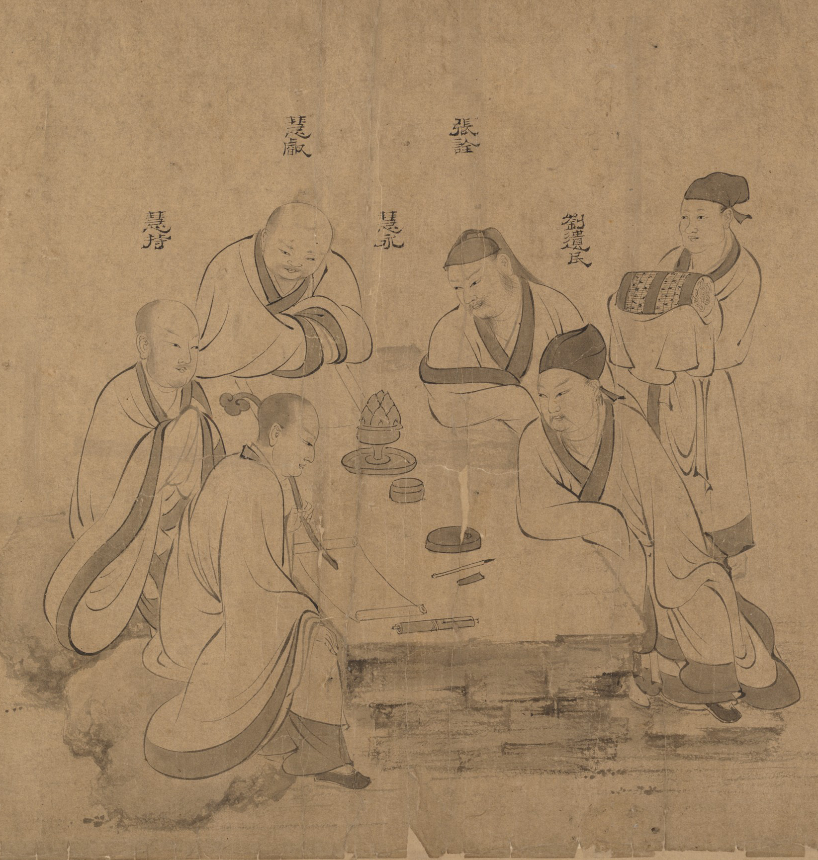 Depiction of the White Lotus Society - Handscroll; ink on paper; total dimensions: 11 7/8 in. × 19 ft. 5 1/2 in. (30.2 × 593.1 cm)